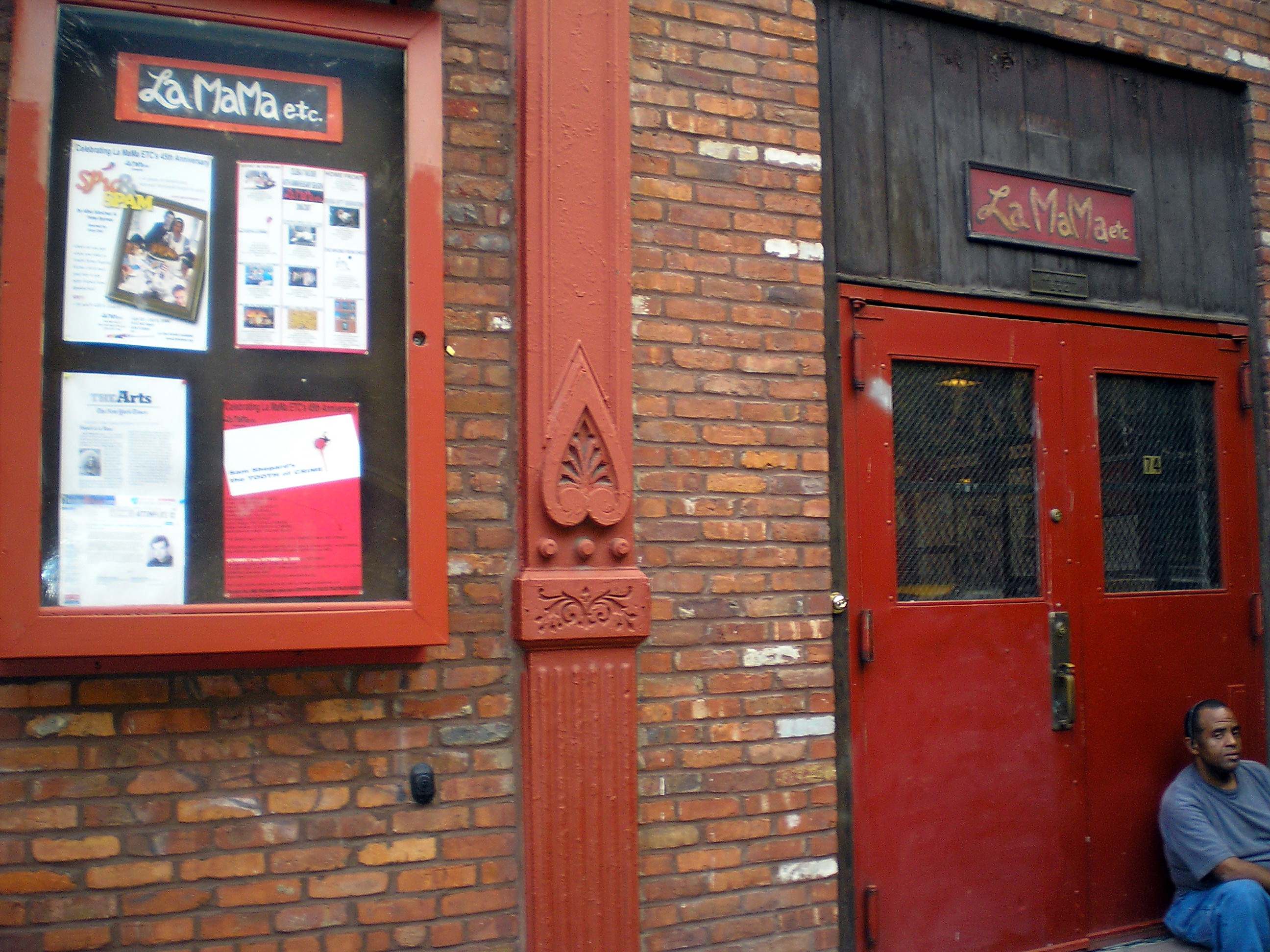 La Mama Theater by David Shankbone